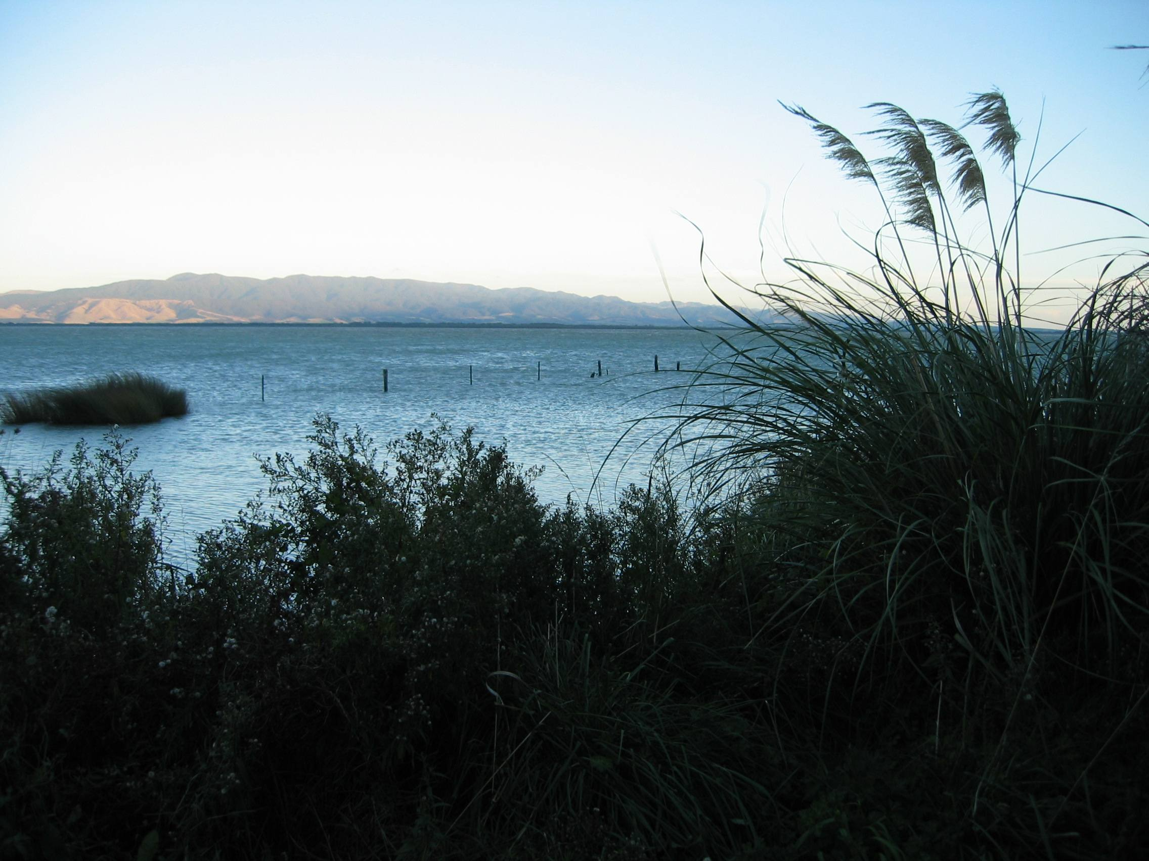 Looking east over Lake Wairarapa towards the Aorangi Range, New Zealand